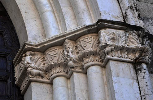 Detail entrance door jamb with Capitoni code of arms.